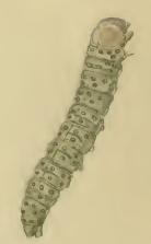 Stainton’s Natural History of the Tineina (1855–1873): Teleiodes sequax